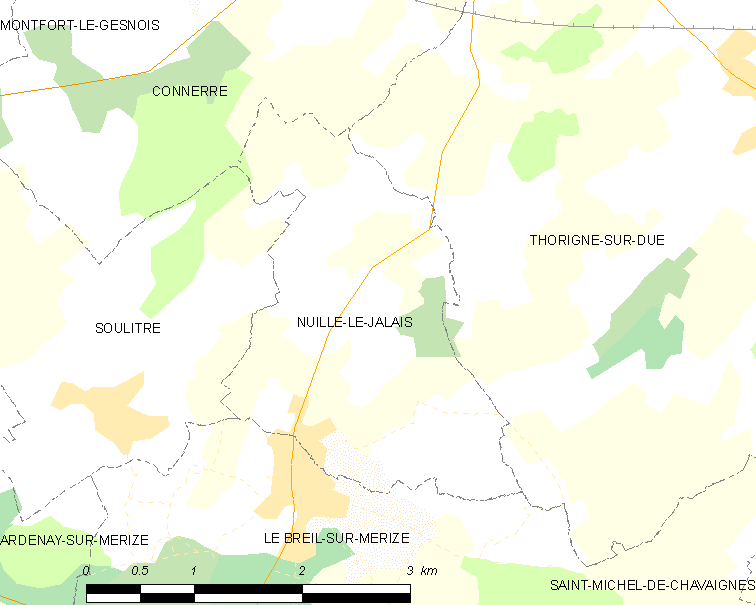 Map of French municipality